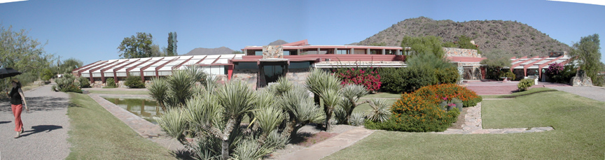 Panoramic view of Frank Lloyd Wright's Taliesin West